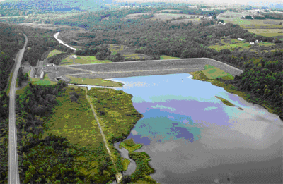 The Stillwater Lake and Dam in Susquehanna County, Pennsylvania. Looking south.